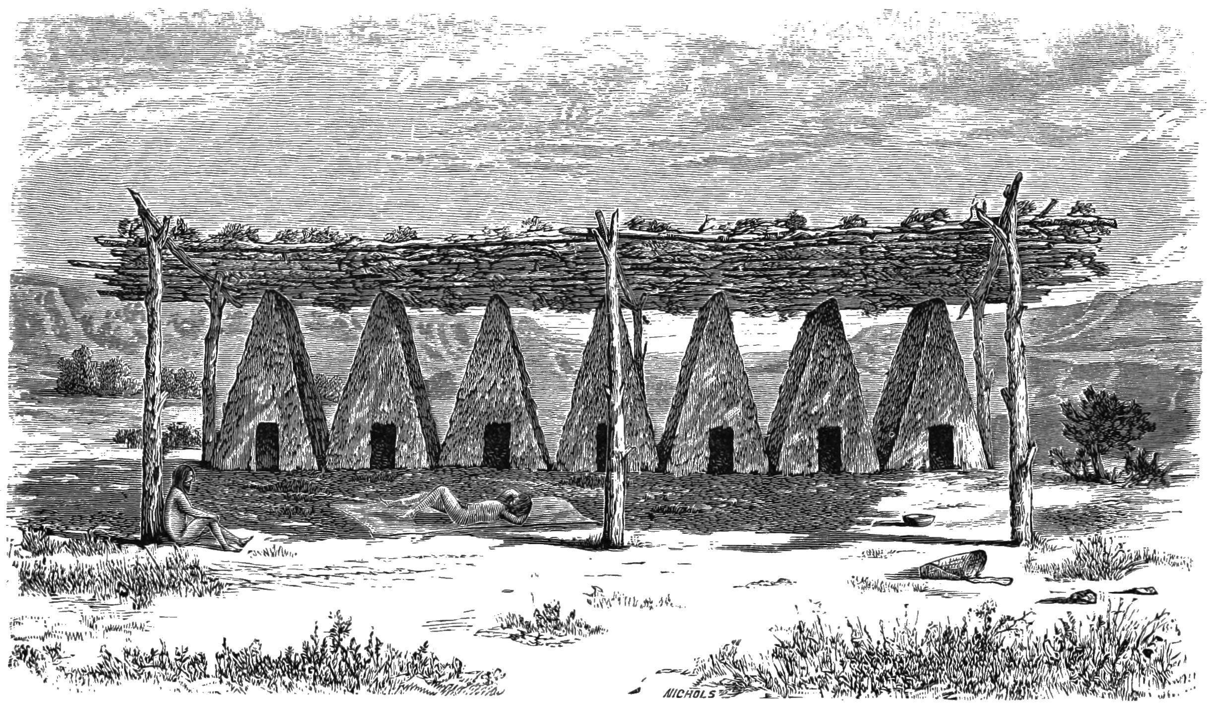 Yokut Tu'e (tule) lodges — in the San Joaquin Valley, California.